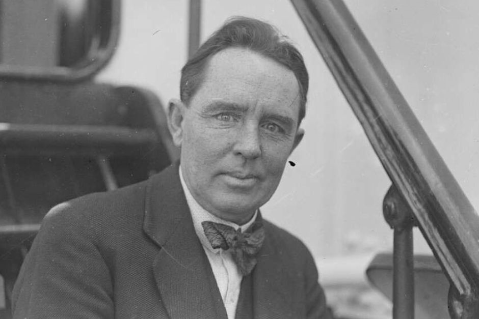 Black and white image (c. 1919) of Harold Nelson, who negotiated a number of pay rises for workers by threatening, or taking, strike action at the Darwin Rebellion.